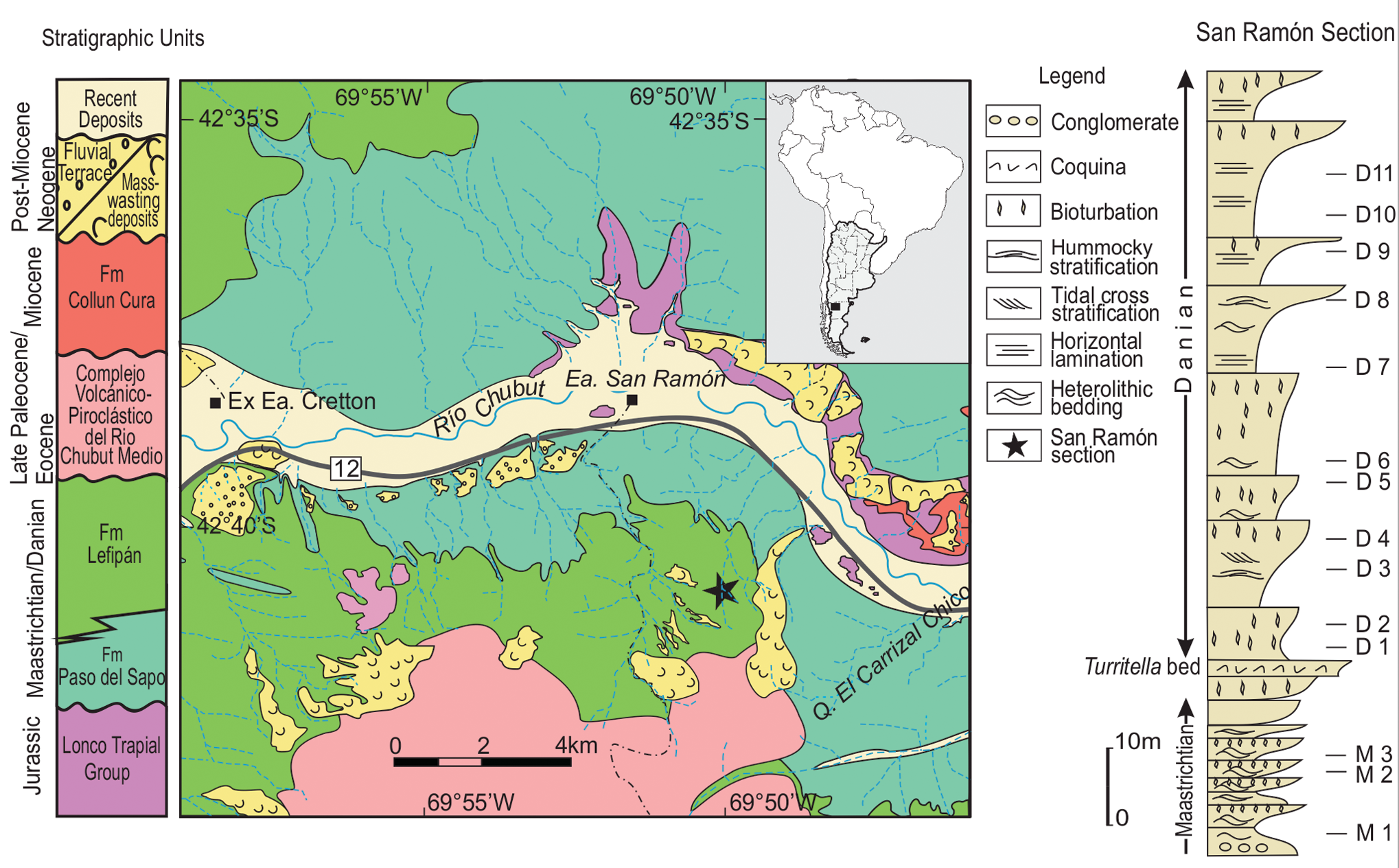 Geologic Map Cañadón Asfalto Basin and stratigraphic column of Lefipán Formation, Patagonia, Argentina